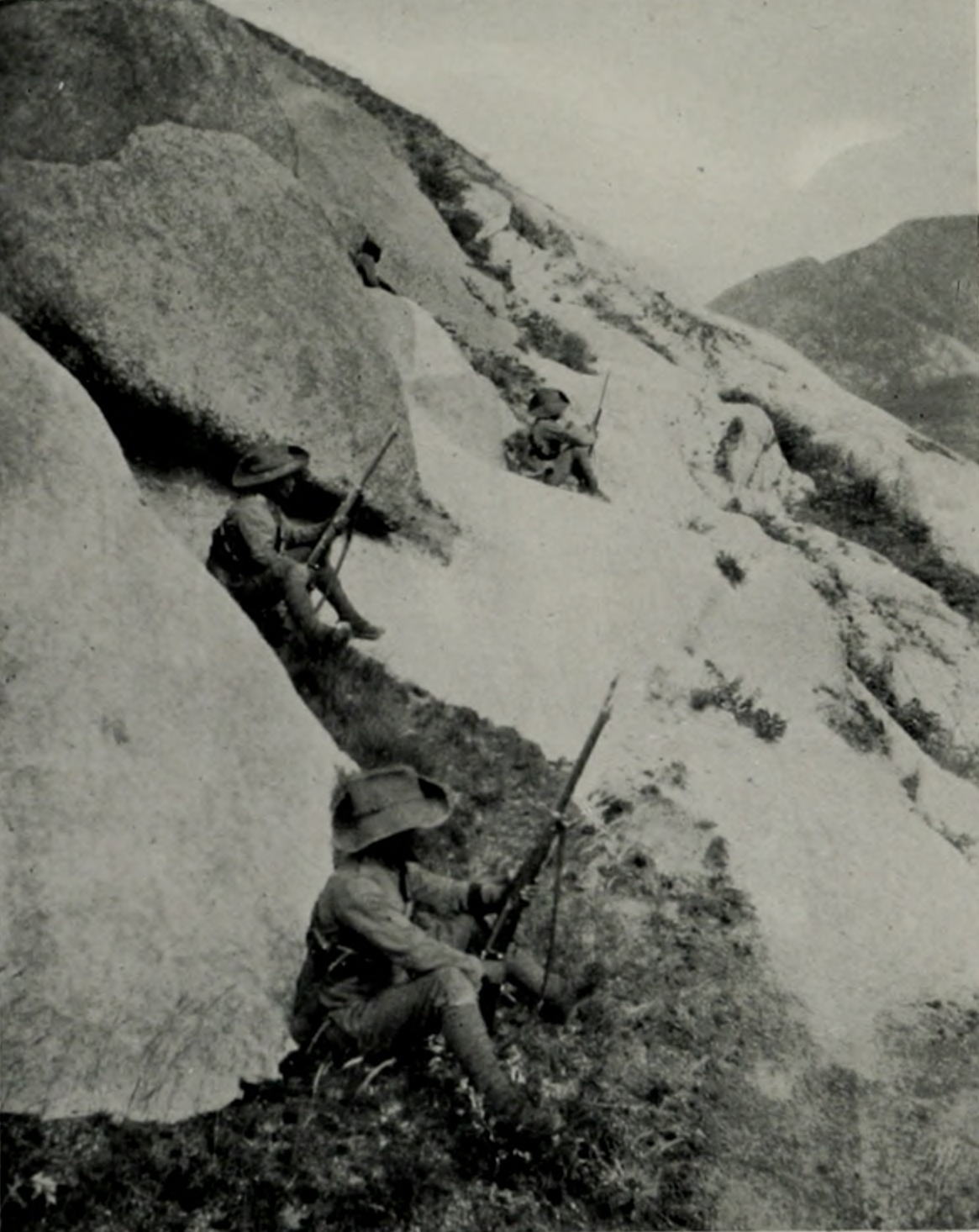 Gurkhas of the British expedition to Tibet climbing at the Karola Glacier to fight Tibetans on July 18, 1904.